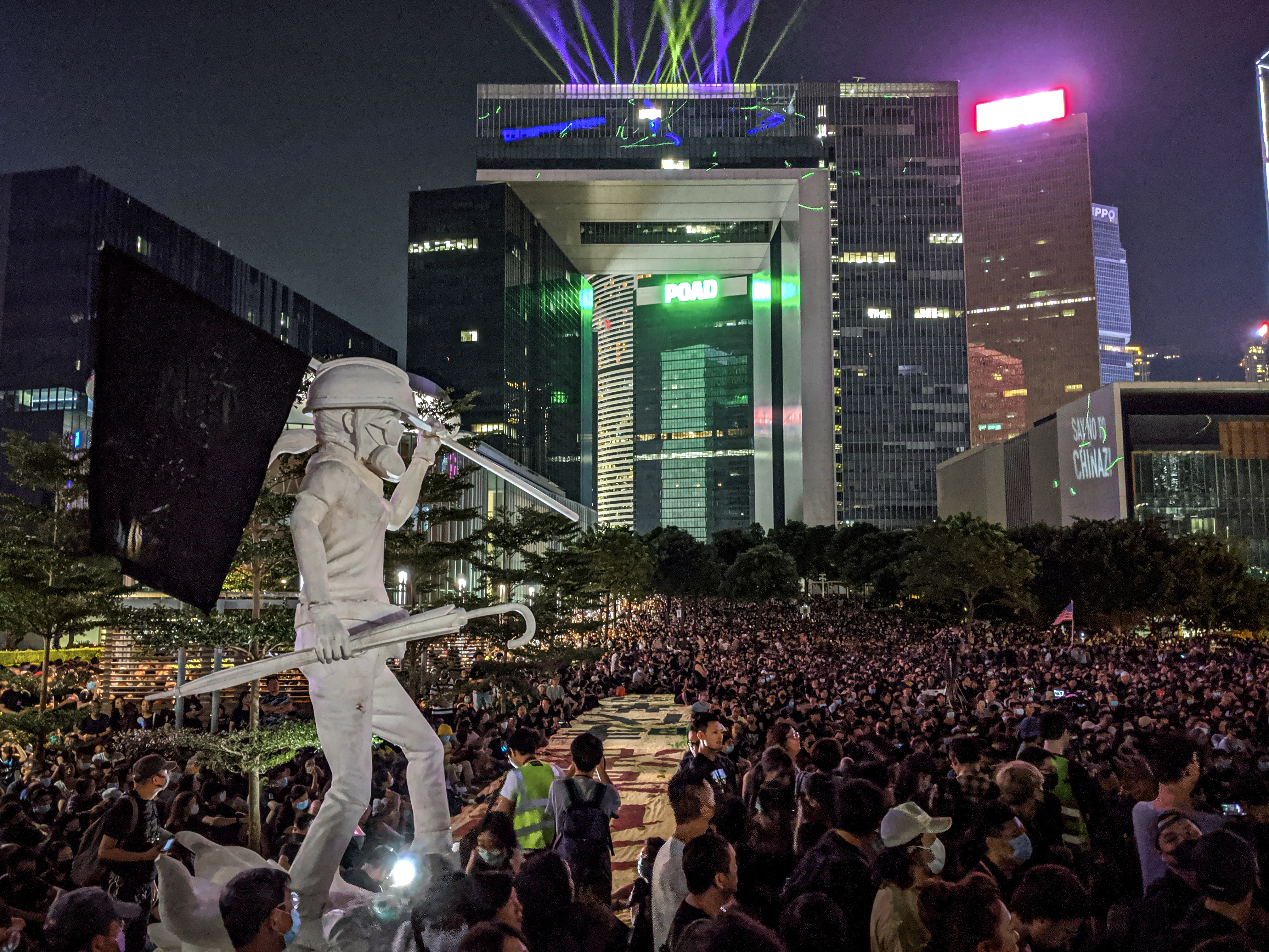 5th Anniversary Umbrella Movement – 傘運五周年, 28 September 2019 (Admiralty, Hong Kong)